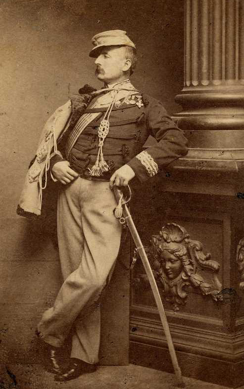 Portrait of italian patriot Nino Bixio (1821-1873)